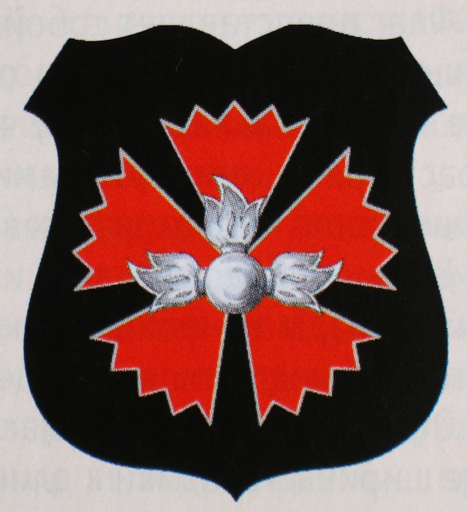 Emblem of the GRU.